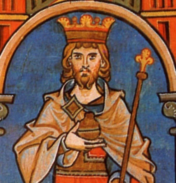 Miniature of Conrad III of Germany from Chronica Regia Coloniensis (Cologne Kings' Chronicle; Cologne; ca. 1240). Brussels, Bibliothèque Royale, Ms. 467, fol. 64v